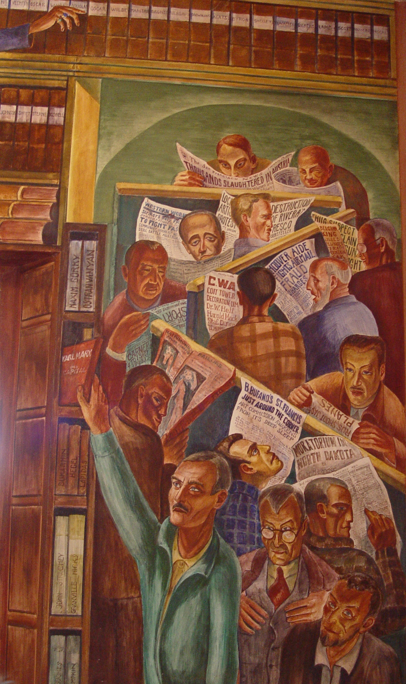 Part of "The Library" (1934) by Bernard Zakheim, in Coit Tower, San Francisco. Includes references to Marx's Das Kapital, the artists Beniamino Bufano and Diego Rivera, the Austrian Civil War in 1934.